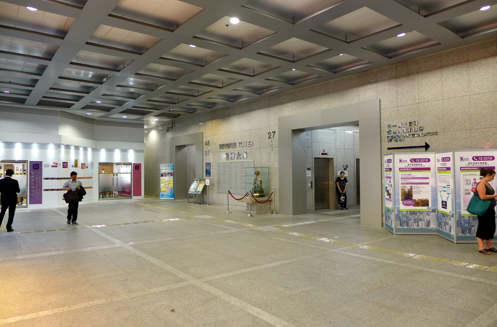 Revenue Tower GF Lobby